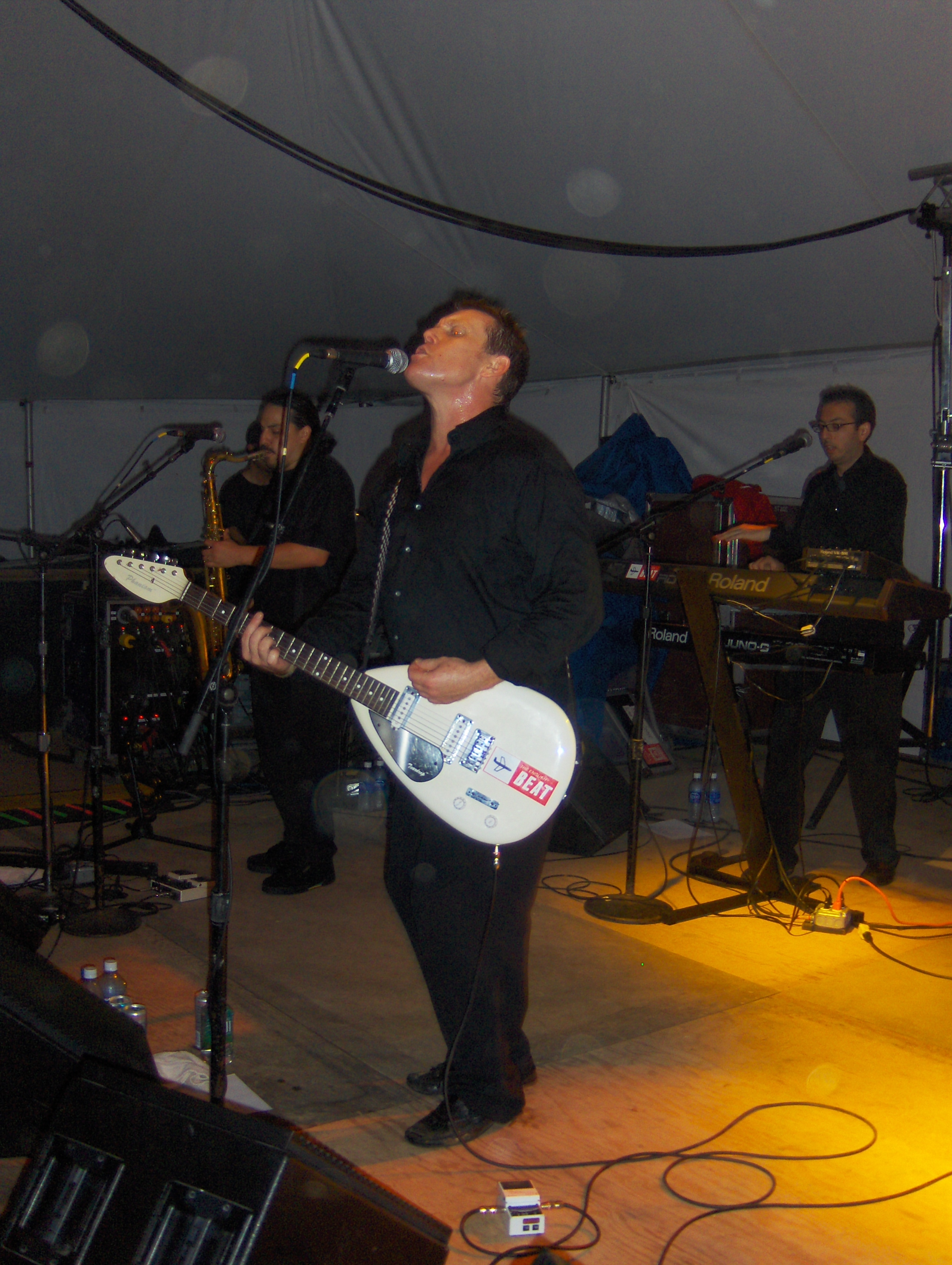 Dave Wakeling of the English Beat and General Public with his new band.